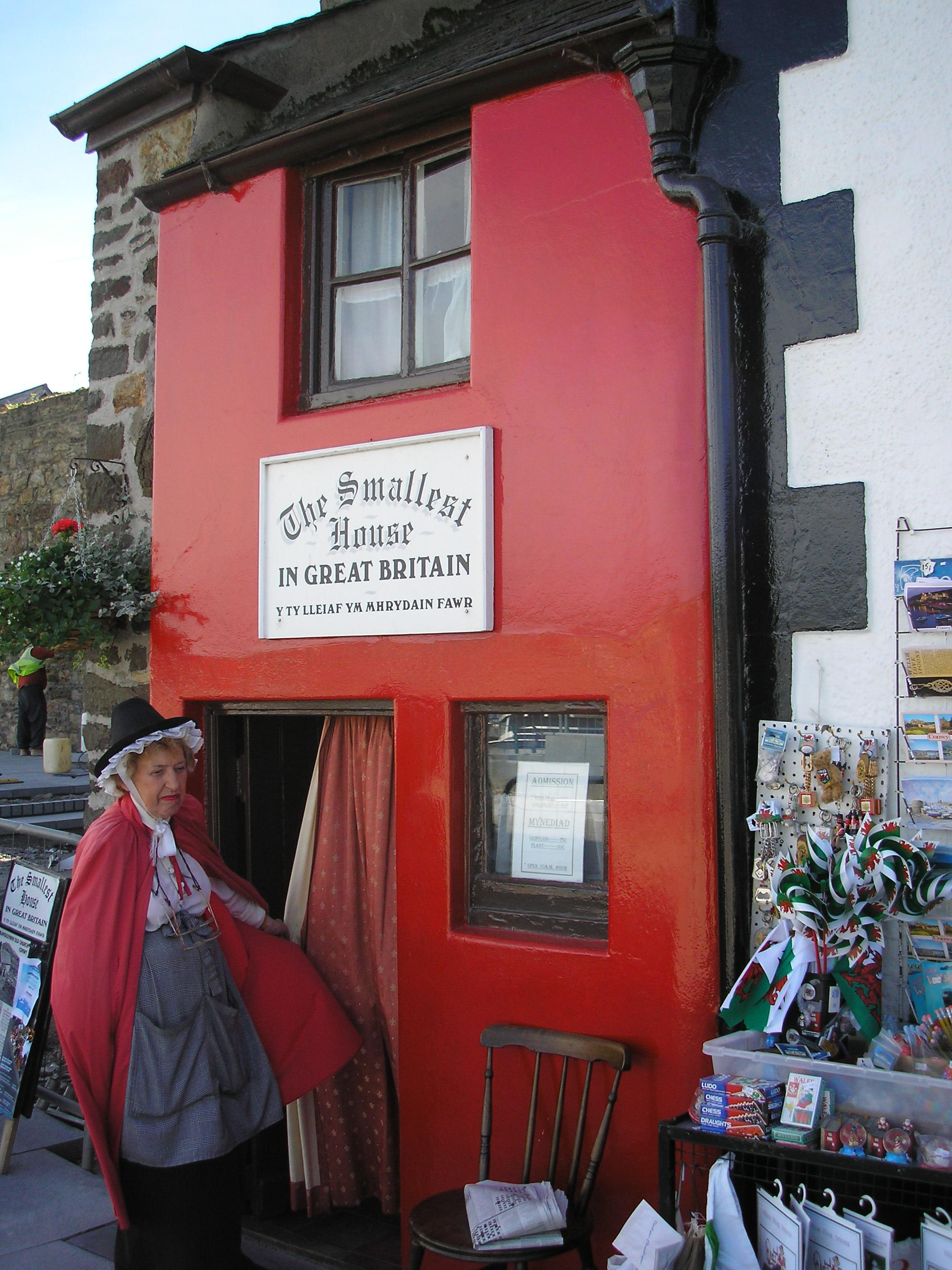 Photo of the Smallest House in Great Britain in Conwy